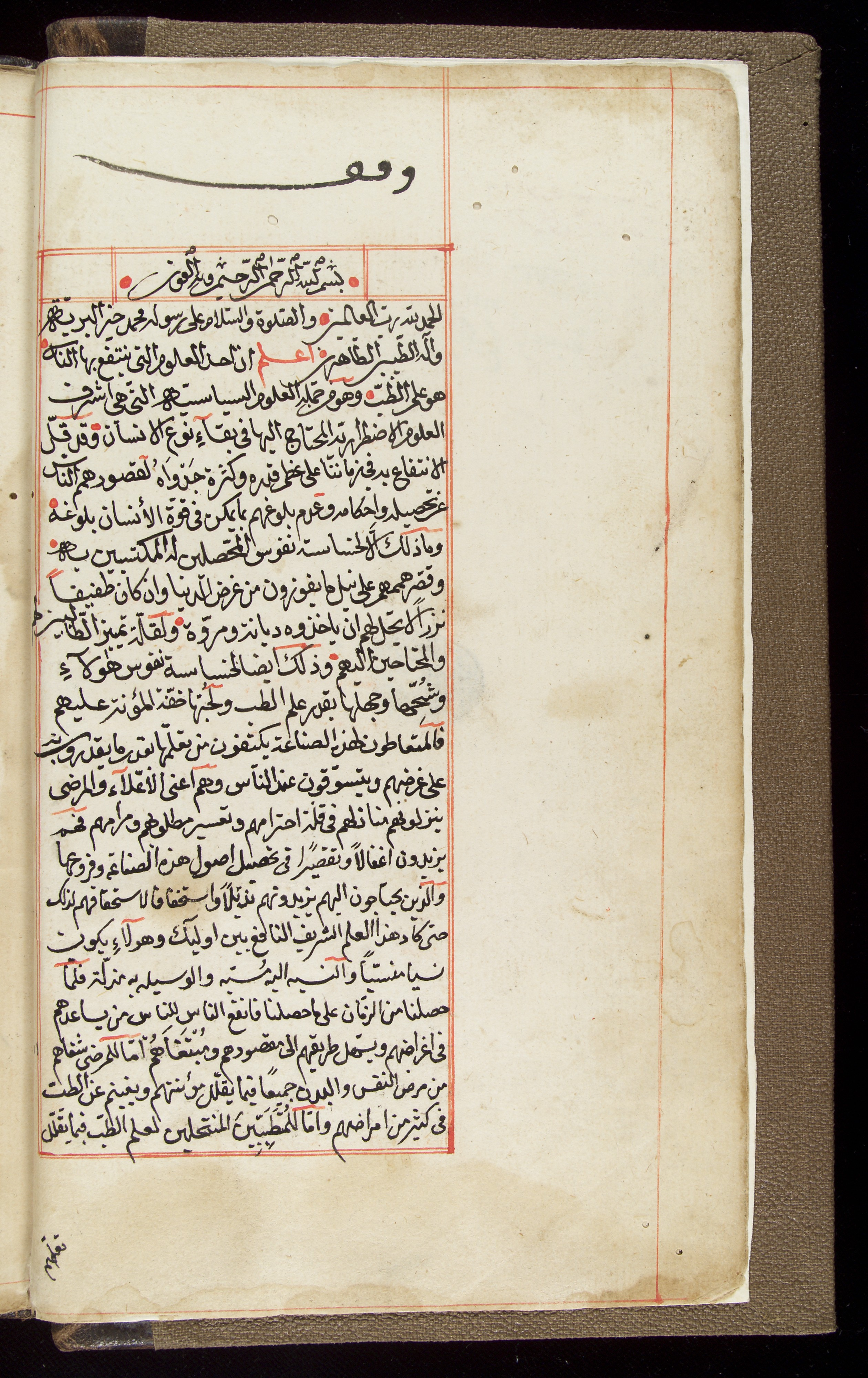 Page from an Arabic Text Asian Collection Keywords: Arabic